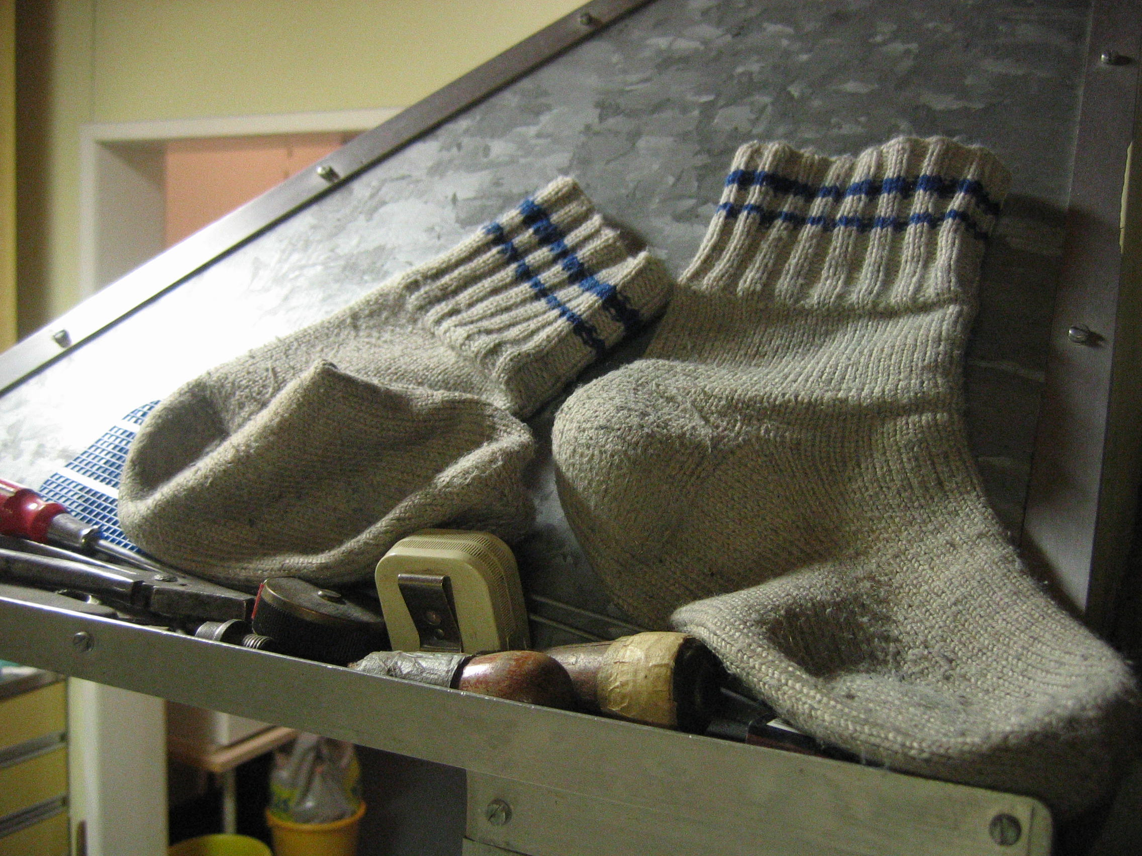 Woolen socks drying on the top of a warm oven in Finland.